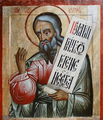 Jesse (Ессей, Ишай) (father to king David), Russian icon from first quarter of 18th cen.